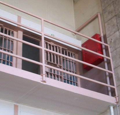 I, Ben McKune took this picture of the former cell of Robert Stroud on June 7th, 2006 and hereby release it into the public domain. This is cell 42 in D-Block on Alcatraz